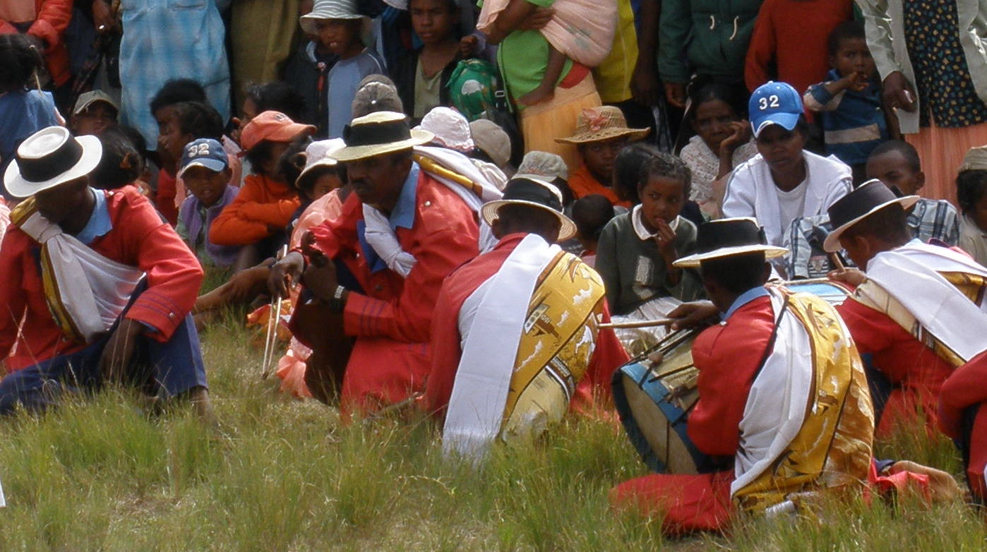 Hiragasy musicians (mpihiragasy) seated between performances, wearing the traditional hiragasy costume of red military jackets, blue slacks, straw hats and a lamba sash.